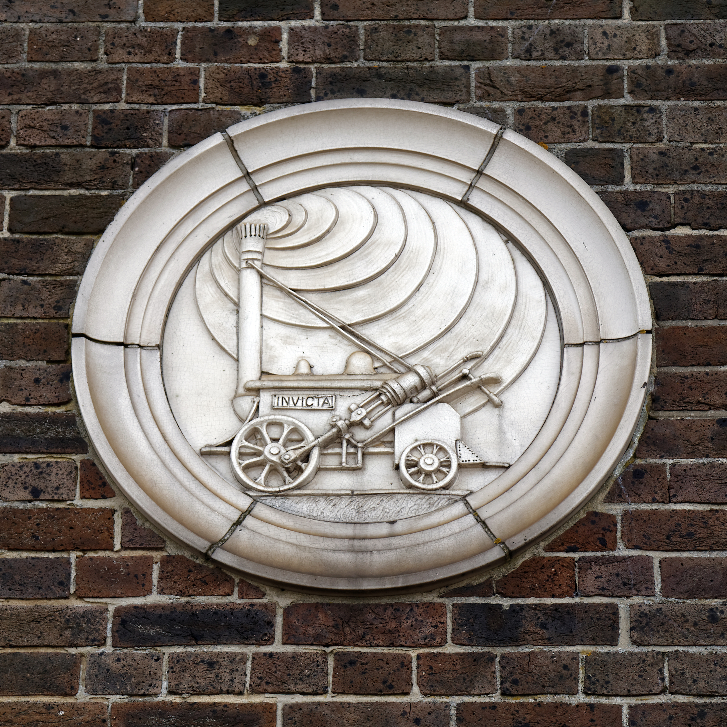 A round plaque on the facade, one of three doubled-up, on the entrance facade of Margate railway station at Margate, Kent, England.Camera: Canon EOS 6D with Canon EF 24-105mm F4L IS USM lens.Software: large RAW file lens-corrected, optimized and downsized with DxO OpticsPro 10 Elite, Viewpoint 2, and Adobe Photoshop CS2.